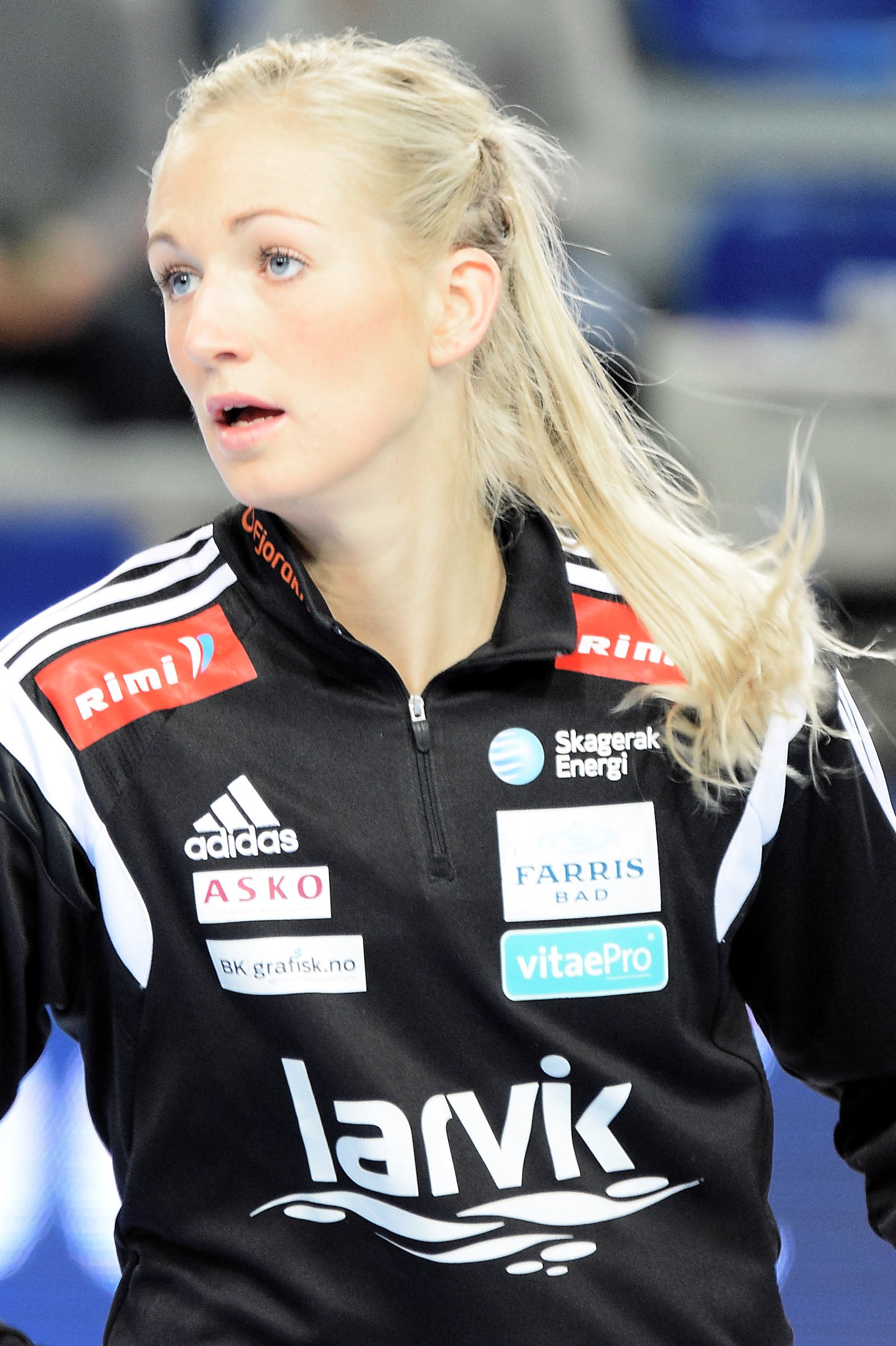 Linn Jørum Sulland - EHF Champion's League, Metz Handball / Larvik HK - 15 november 2014.